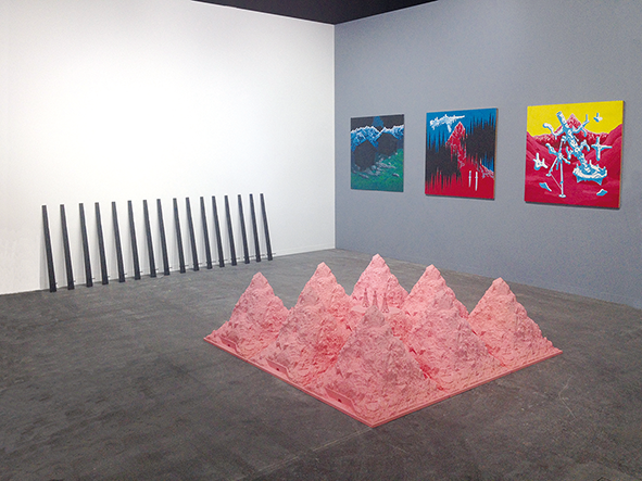 Installation, CACY, Centre d'Art Contemporain Yverdon, ArtGenève, 2019